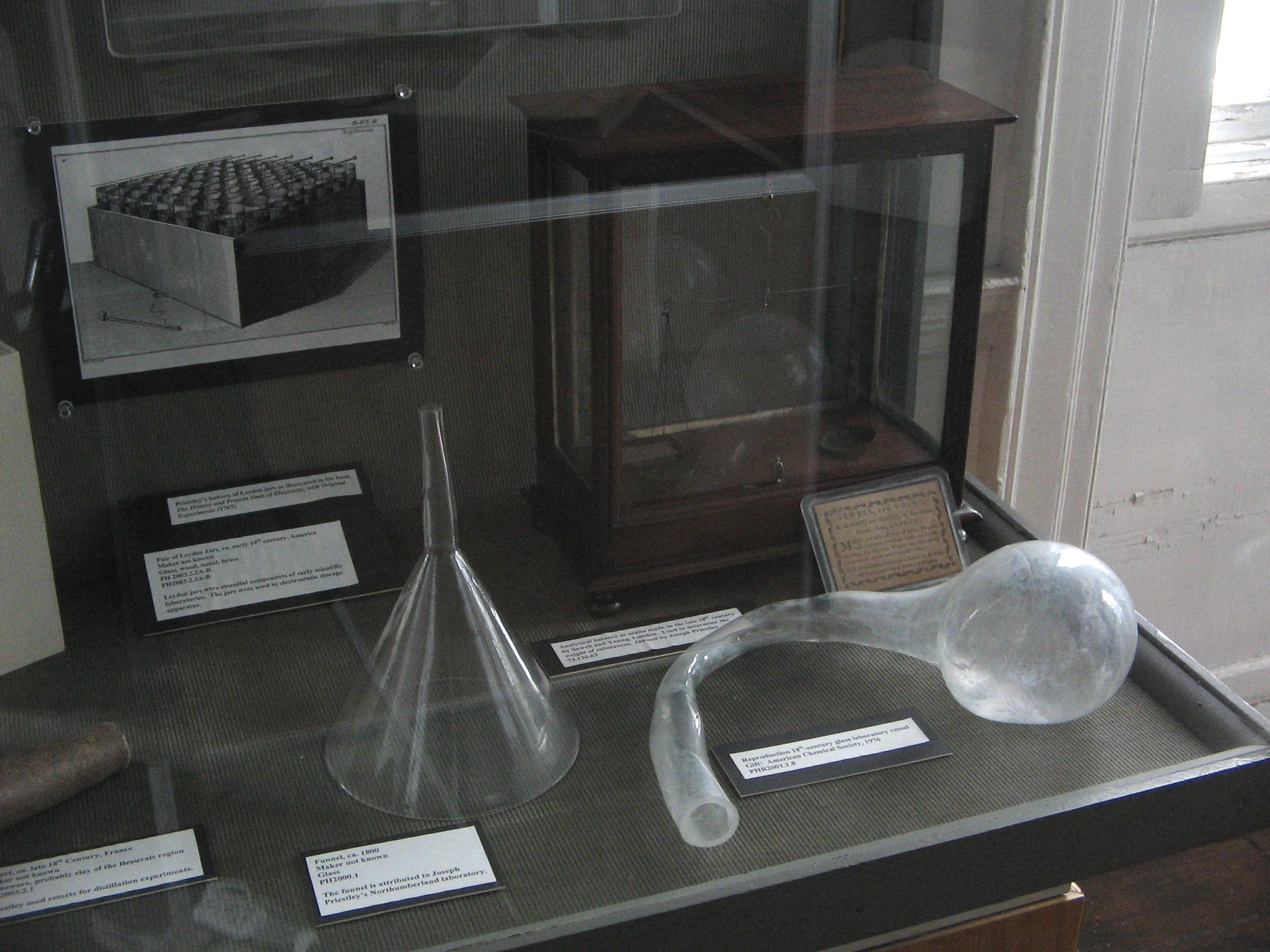 Balance and Glass Funnel from Priestley's laboratory in display case in Drawing Room of Joseph Priestley House in Northumberland, Northumberland County, Pennsylvania, USA.